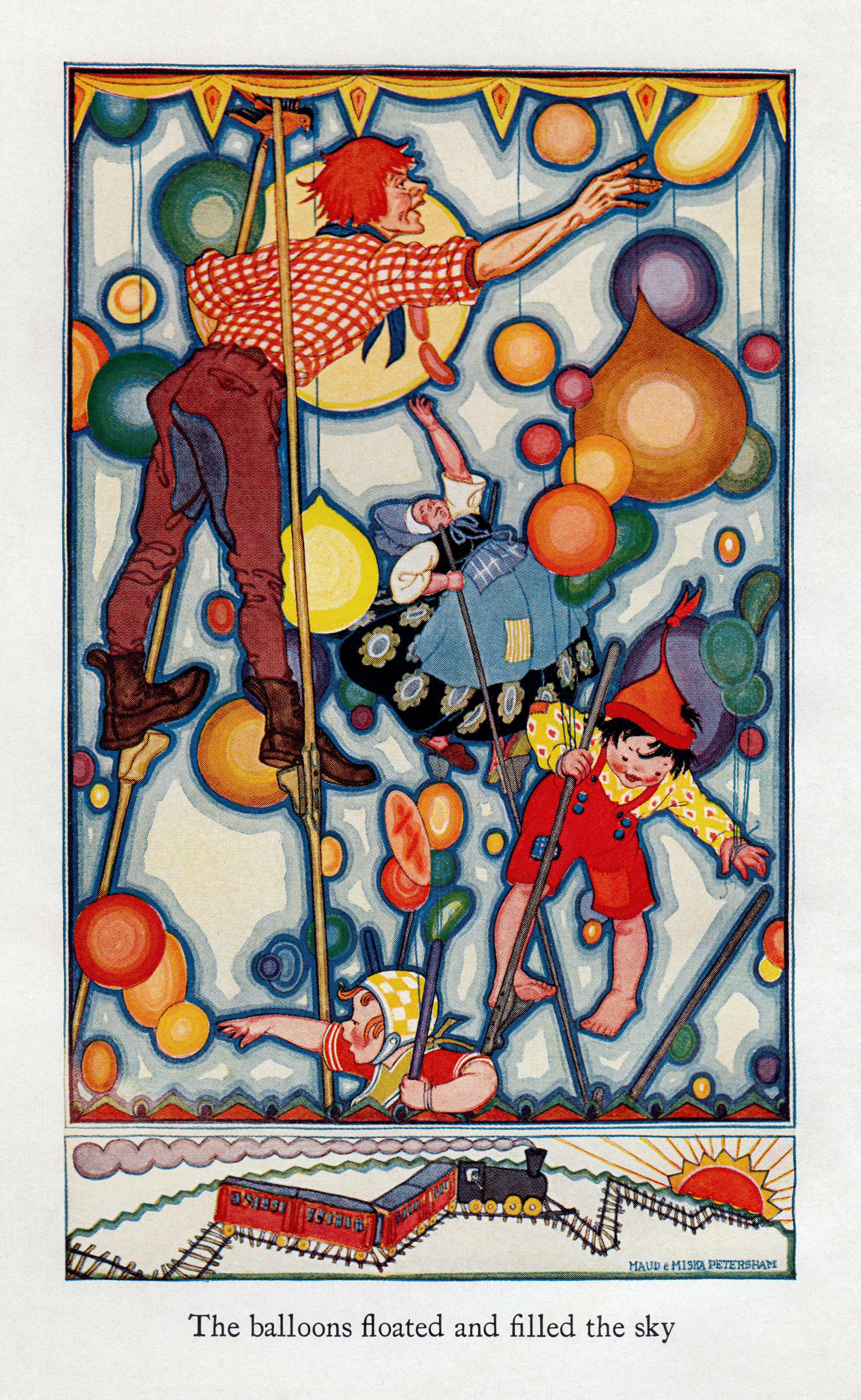 Frontispiece of the 1922 edition of Rootabaga Stories by Carl Sandburg, published by Harcourt, Brace, and Company, New York. . Illustration by Maud and Miska Petersham. Cleaned up and adjusted to match colours in original, as best as possible.